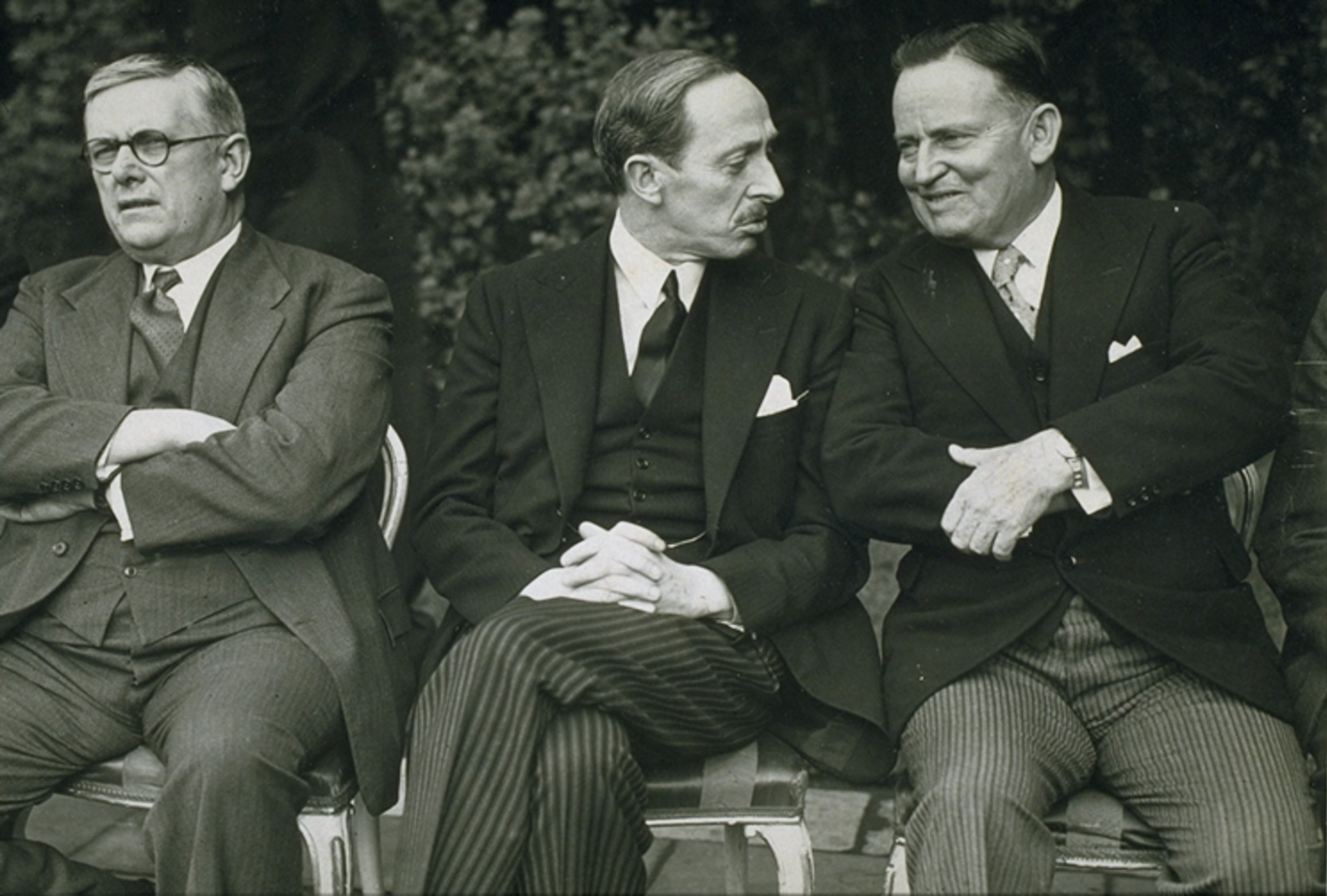 H.V. Evatt, Lord Cranborne, and Frank Forde waiting to meet Winston Churchill at 10 Downing Street.